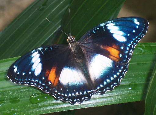 Hypolimnas bolina female from Darmaga, Bogor, West Java, Indonesia